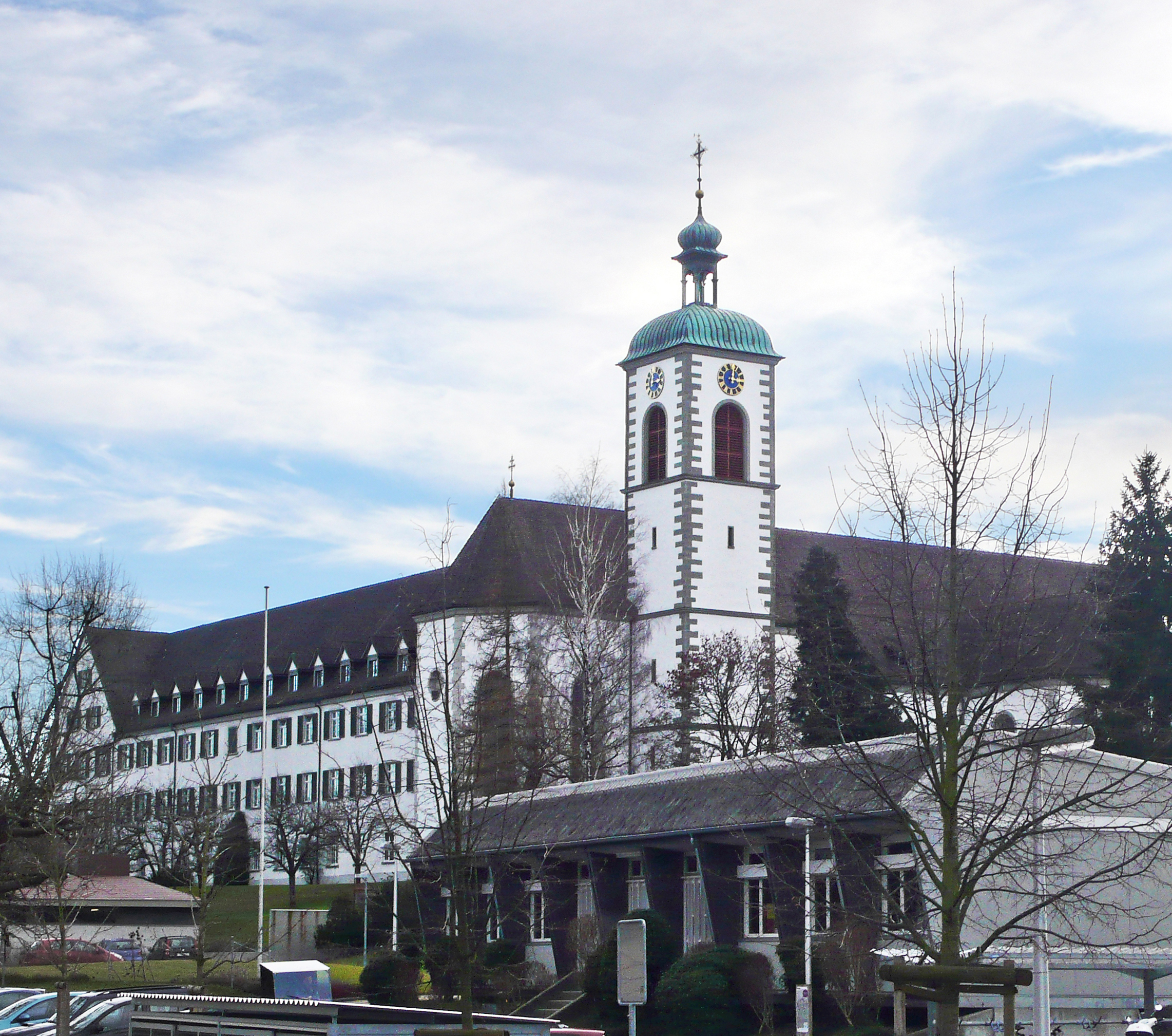 Former Kreuzlingen abbey with Saint Ulrich and Afra church.